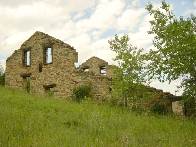 abandoned ore mill at Pony, MT, USA